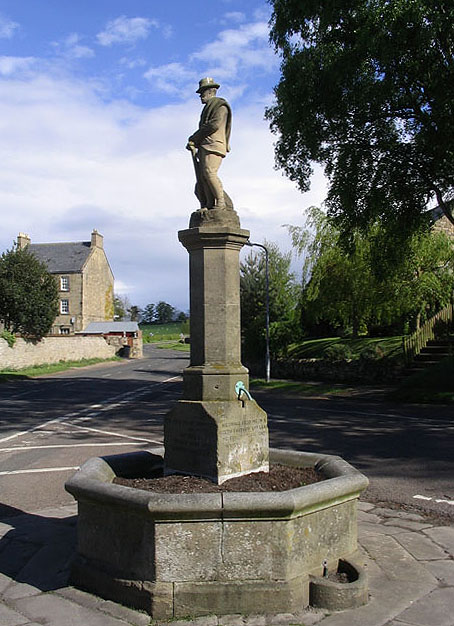 Fountain memorial in Whittingham A one time drinking fountain now filled in ready for bedding plants. Dedicated to the memory of the Third Earl of Ravensworth. There are four inscriptions at the base of the column as follows:- TO THE DEAR MEMORY OF ATHOLE THIRD EARL OF RAVENSWORTH HE SHALL FEED ME IN A GREEN PASTURE AND LEAD ME FORTH BESIDE THE WATERS OF COMFORT PS XXIII.11 ERECTED BY HIS WIFE CAROLINE COUNTESS OF RAVENSWORTH THE LORD IS MY SHEPHERD I SHALL NOT WANT PS. XXIII.1